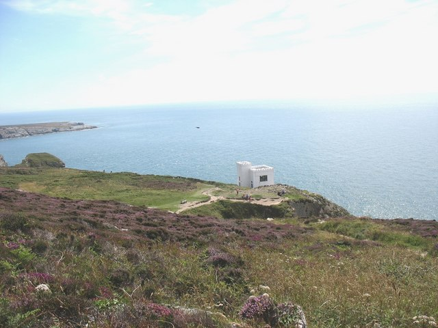 The RSPB's Ellin's Tower from the road. South Stack, Anglesey